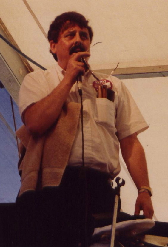 Eagle Brass Band at New Orleans Jazz & Heritage Festival. Barry Martyn speaks into microphone. Cropped around Martyn.